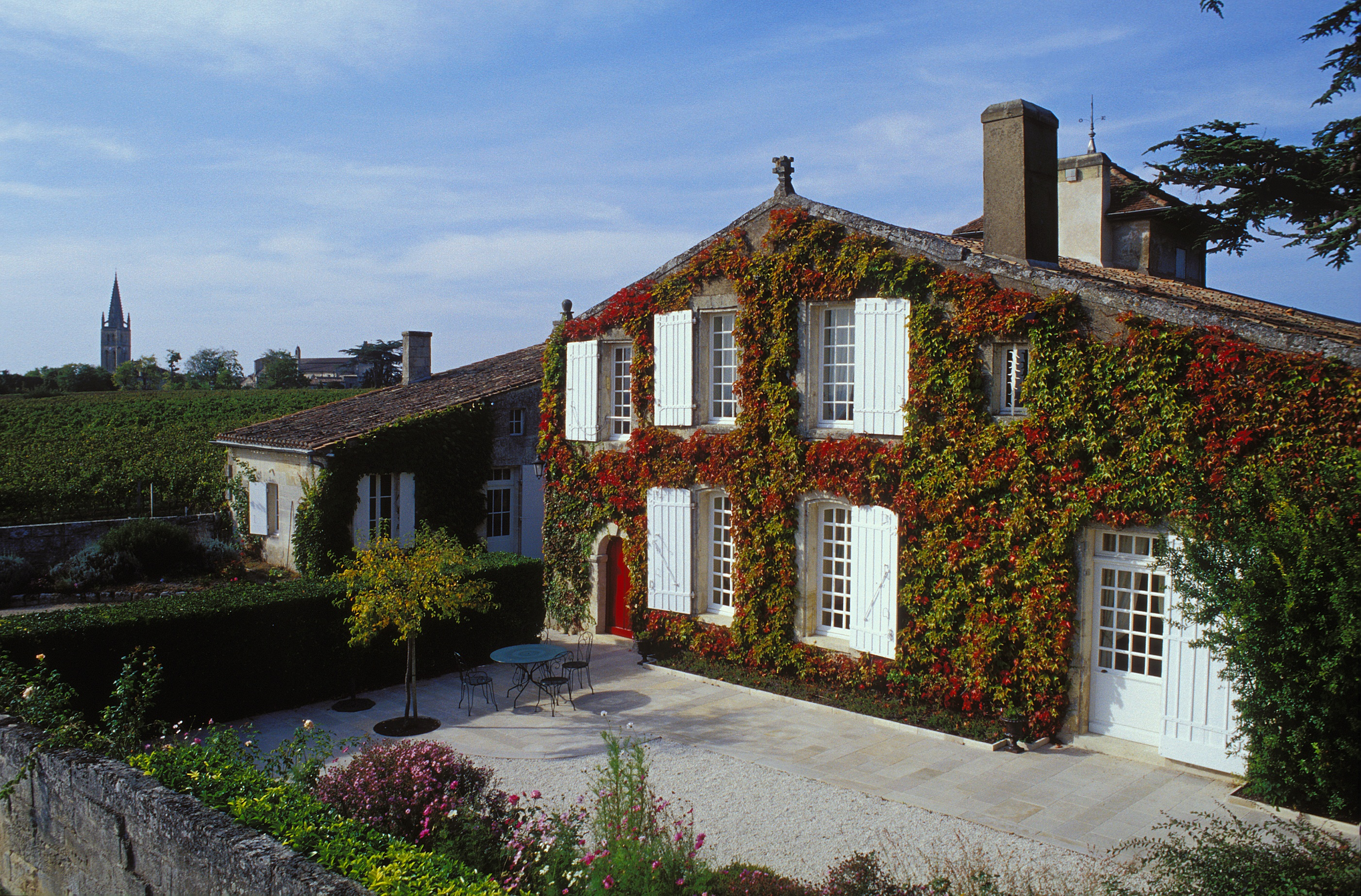 Château La Serre - Saint Emilion